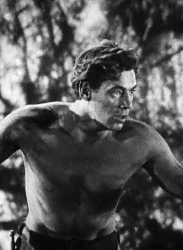 Low resolution screenshot from the public domain trailer for the film Tarzan the Ape Man (1932) with Johnny Weissmuller as Tarzan.